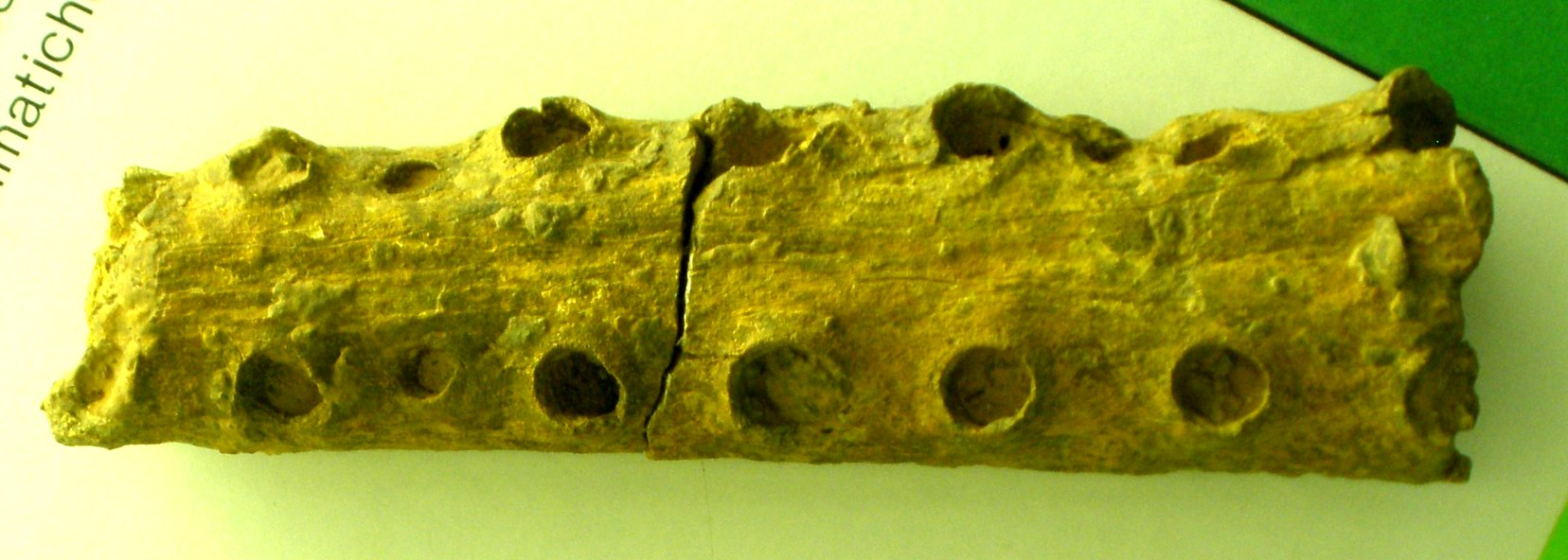 Took the photo at Museo di Storia Naturale di Milano